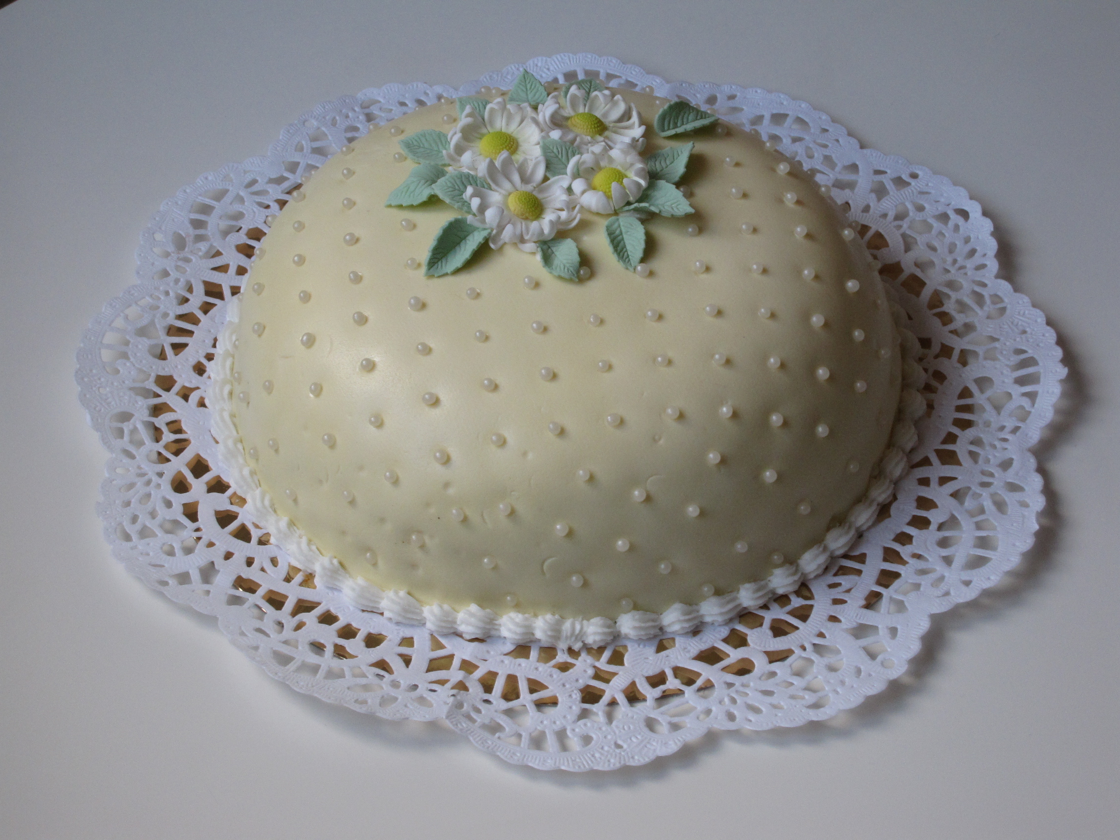 Cake with sugarpaste from